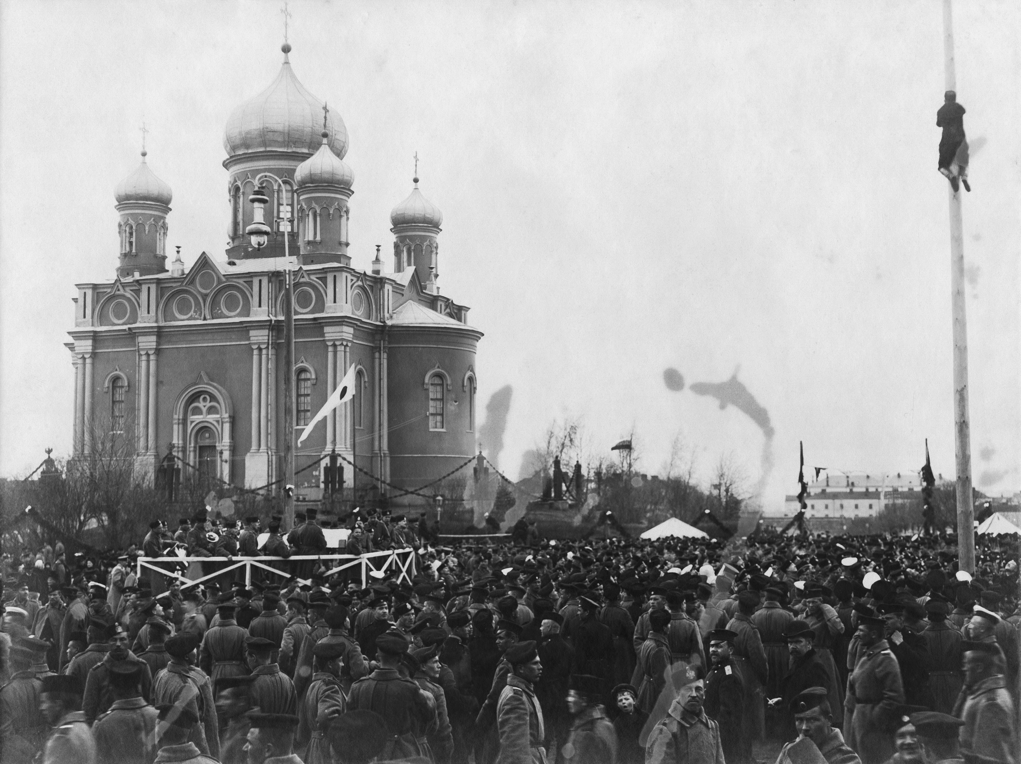 In April 1908, the centenary of the Russian garrison was celebrated on Suomenlinna. Lots of Russian soldiers flocked round the orthodox church, which was built in 1854 as a garrison church.